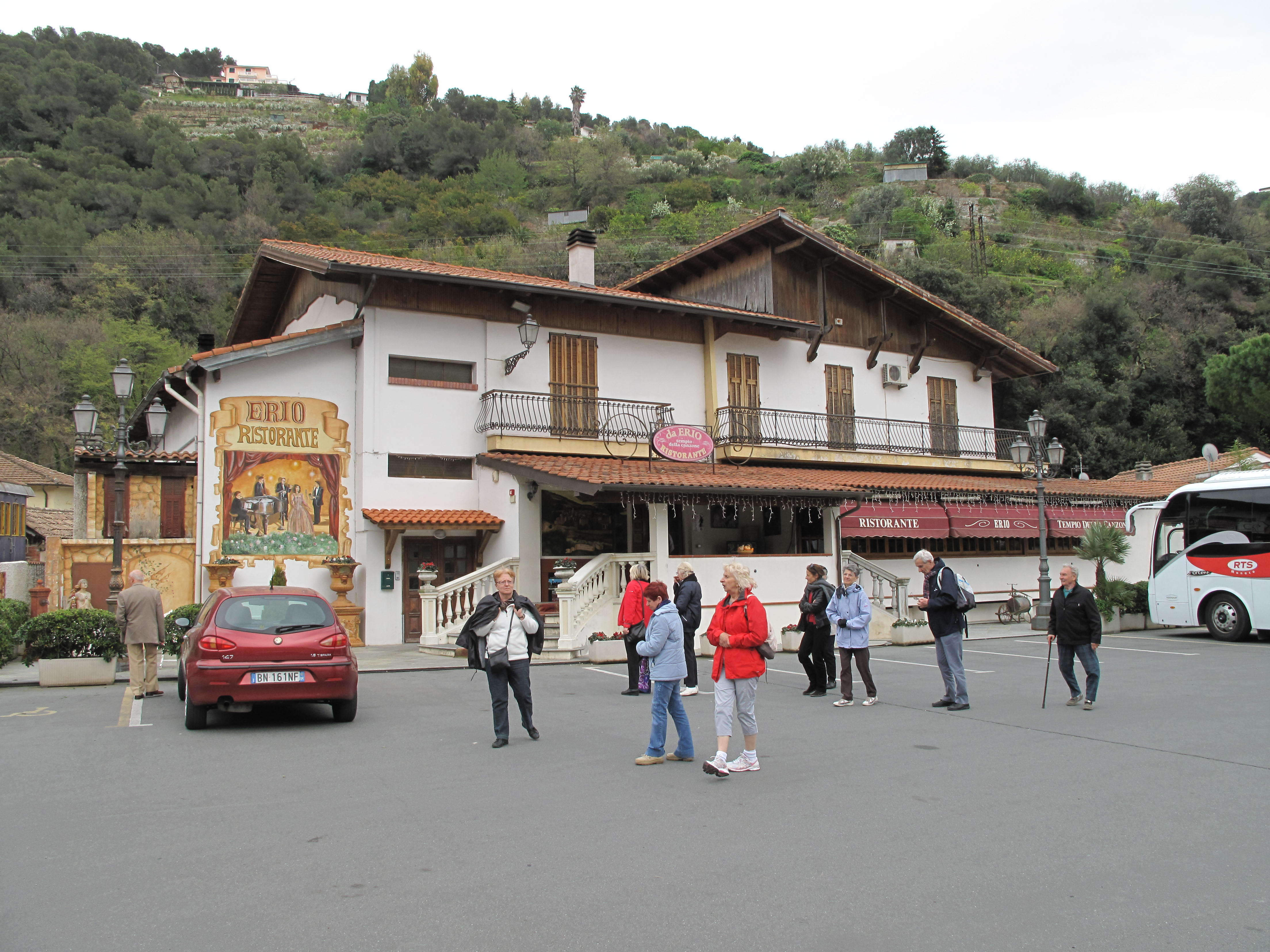 Erio restaurant in Vallecrosia (Liguria, Italy). It is also a museum of the song and the reproduction of sounds.